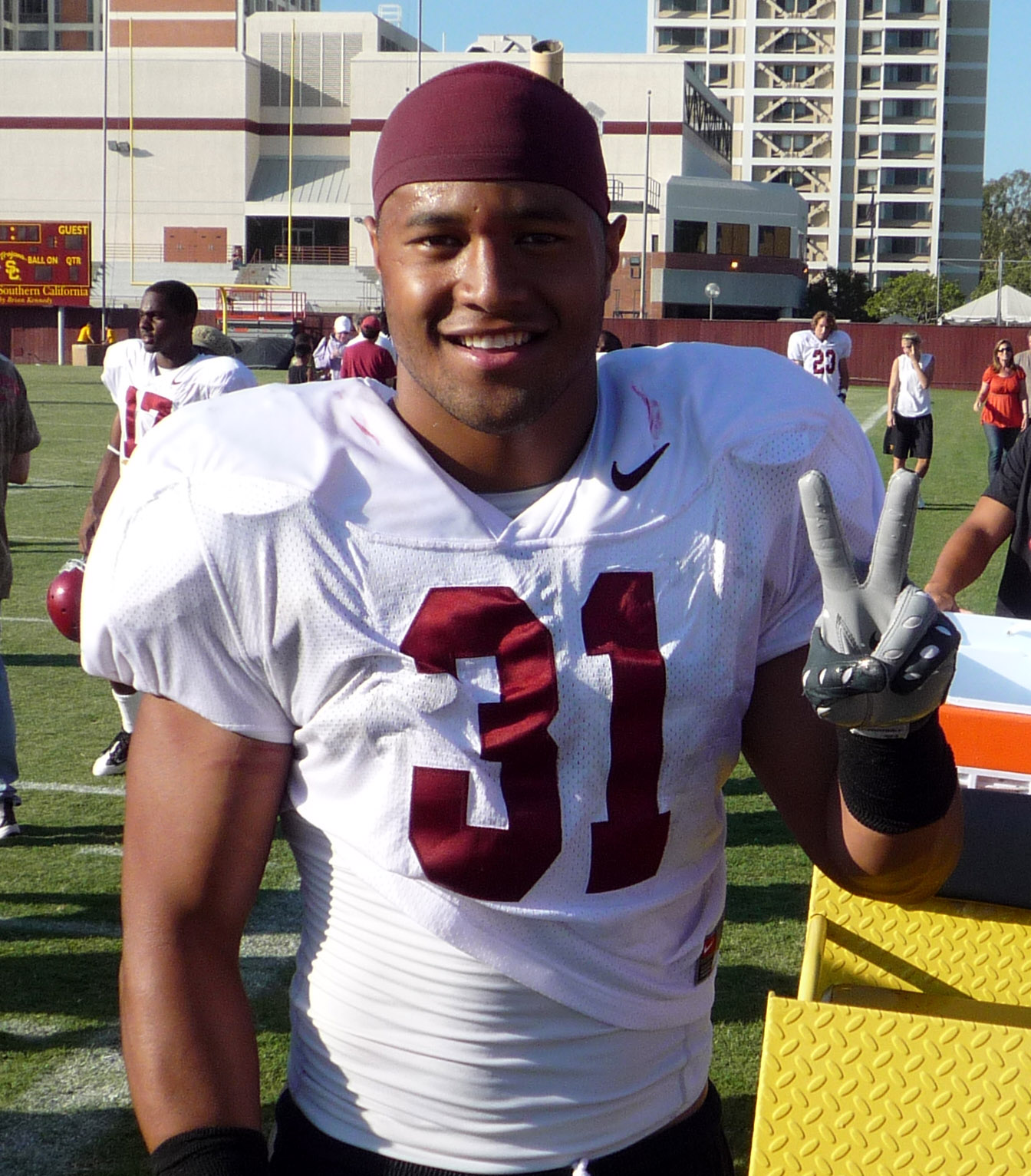 Fullback Stanley Havili, after a fall practice preceding the 2008 USC Trojans football season. He is making the traditional USC Trojan "V" for victory hand sign.